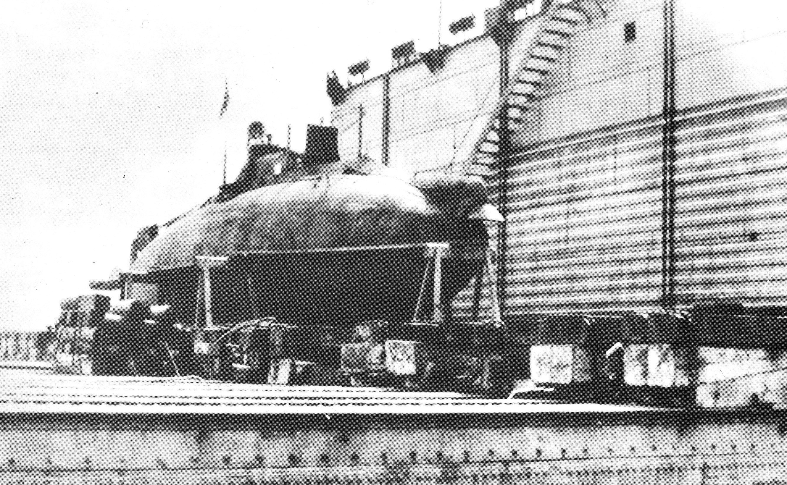 Submarine «Fulton» on the dock, later «Som» in the Imperial Russian Navy.